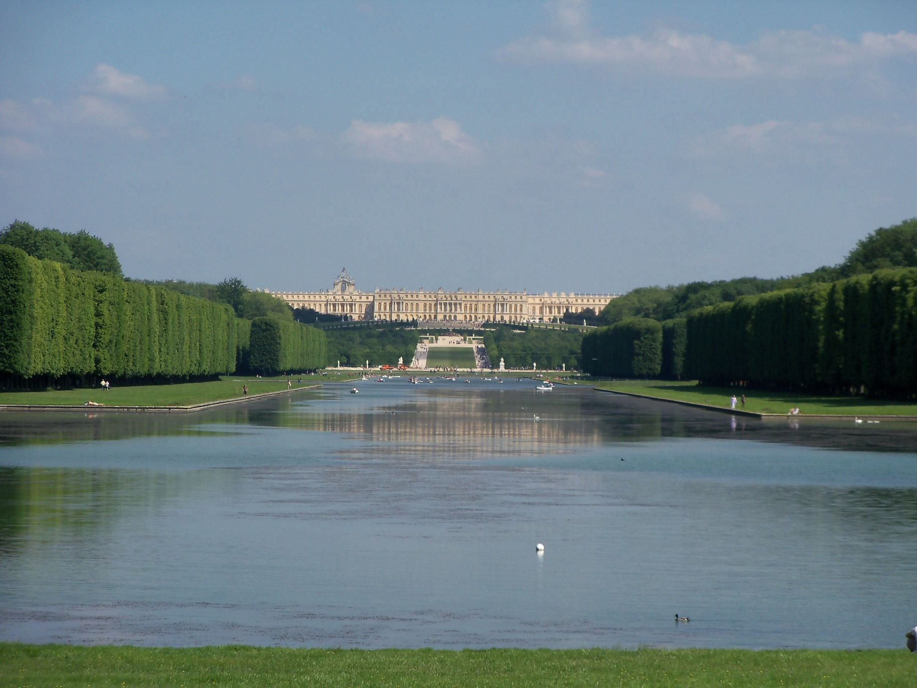 A view of the garden facade of the Palace of Versailles from the western end of the Grand Canal, in Versailles, France, southwest of Paris. Made during my private vacation in Paris in 2010. Recommend everyone to visit this marvel of civilization.